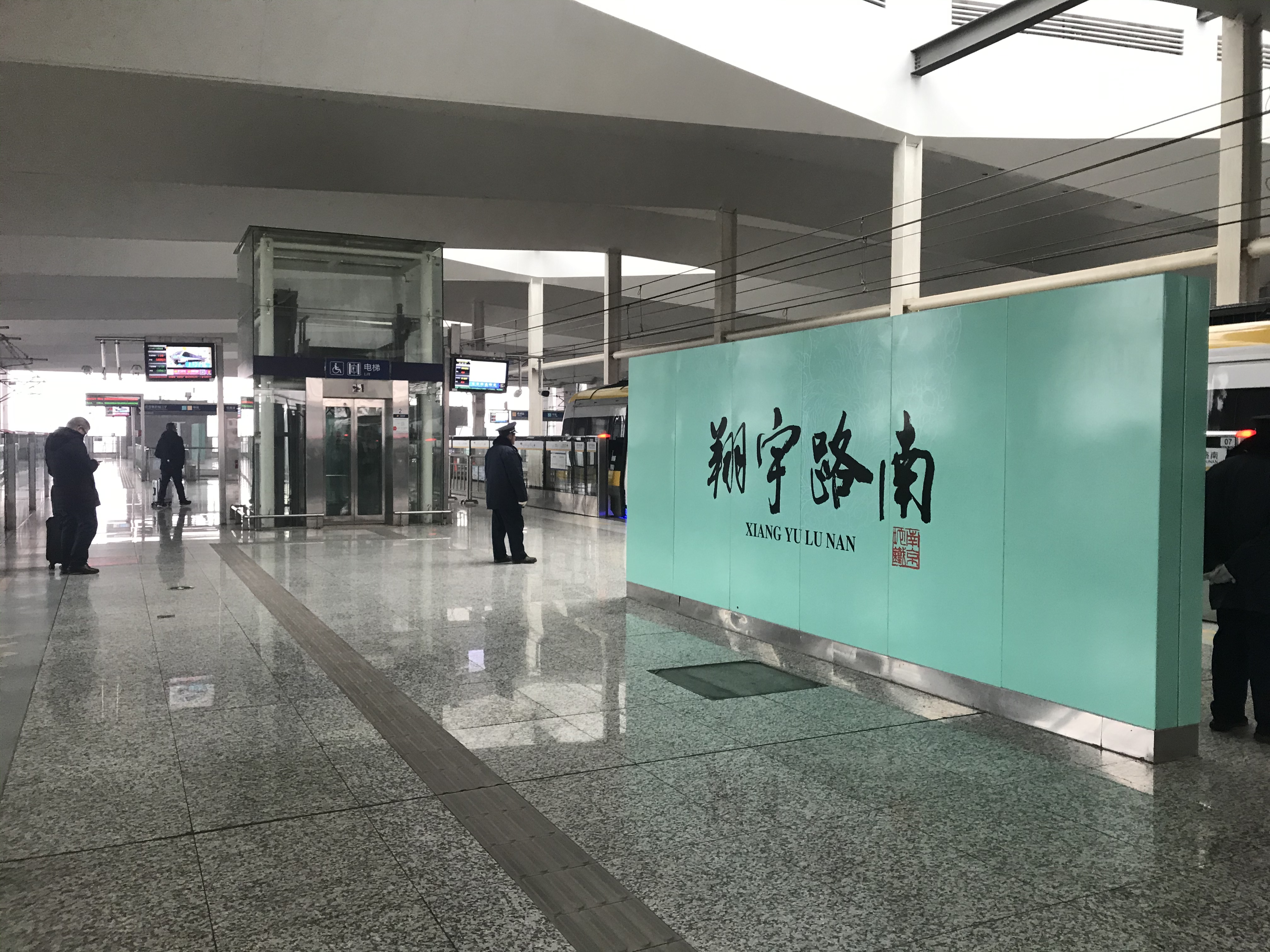 201912 Nameboard of Xiangyulunan Station